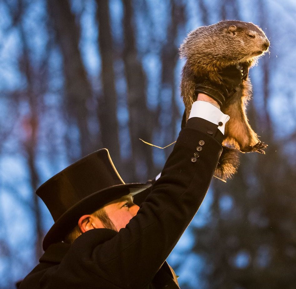 Punxsutawney Phil on February 2, 2018.